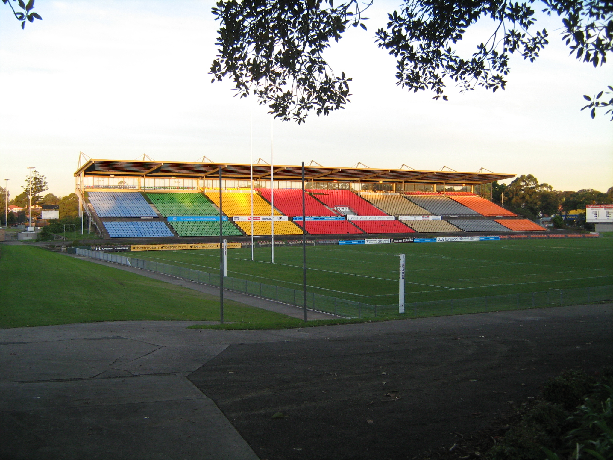 View of Concord Oval (Waratah Stadium) showing the eastern grandstand. Concord, NSW, Australia.